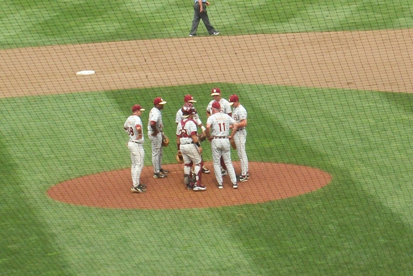 Mike Martin (11) visits the mound to coach members of the 2010 Florida State University baseball team at the 2010 College World Series at Johnny Rosenblatt Stadium in Omaha, Nebraska, USA.